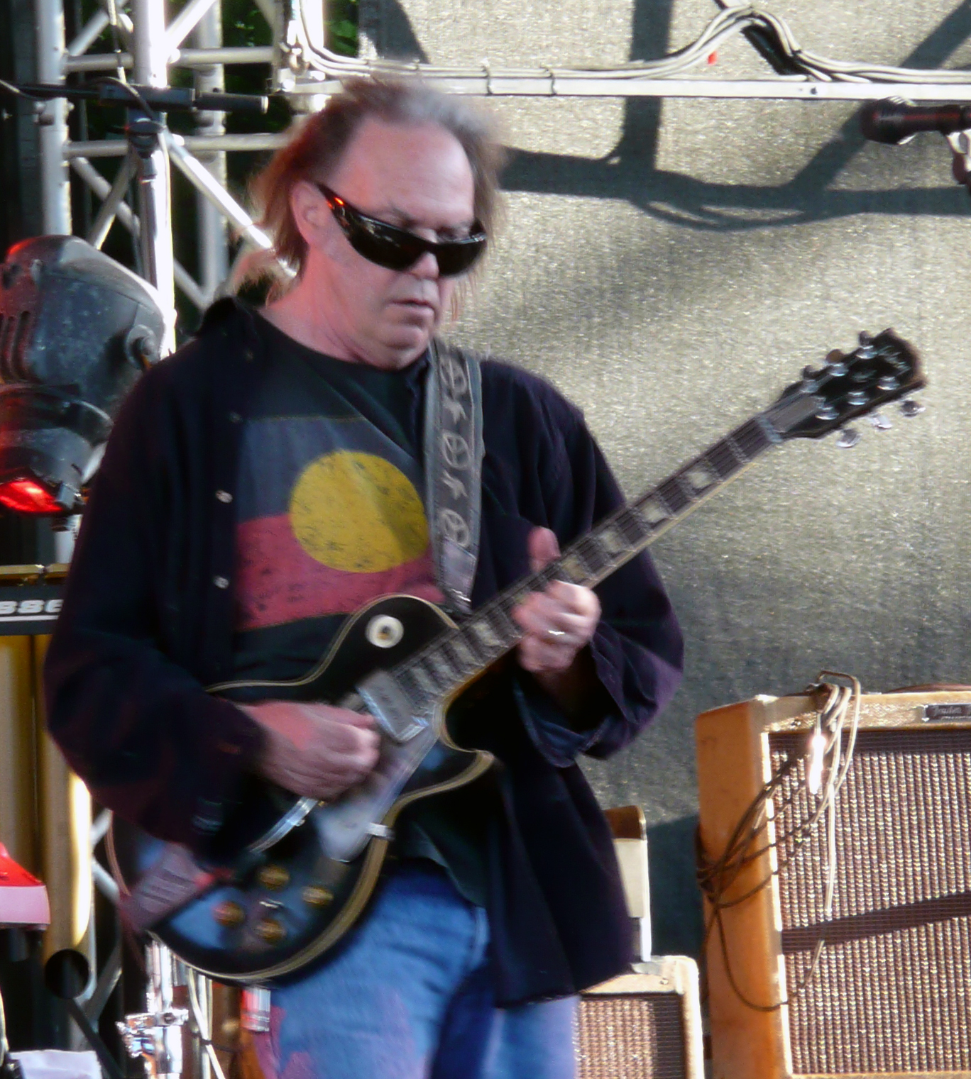 Neil Young at a concert in Cologne on 19 June 2009